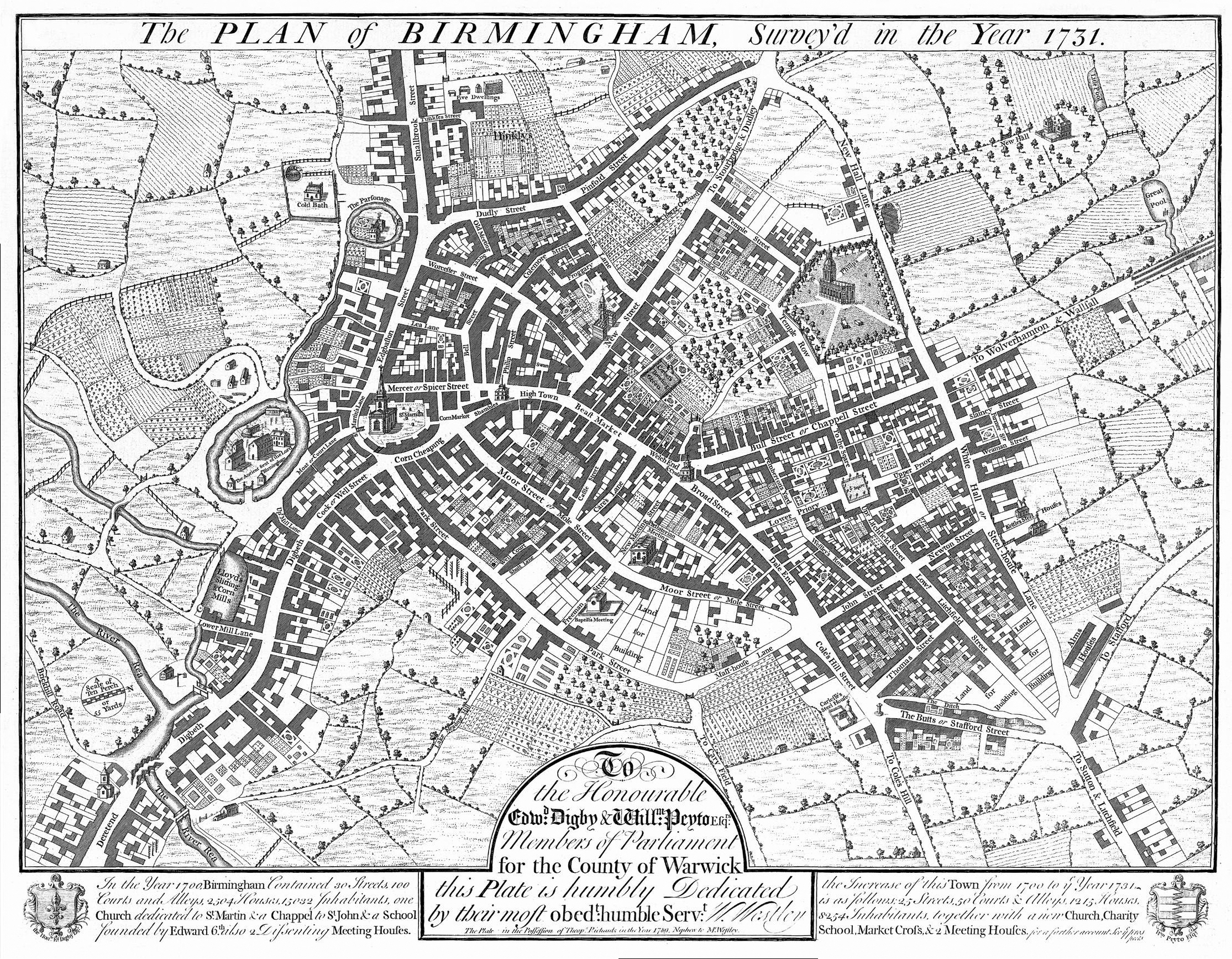 1731 map of Birmingham by William Westley. The top of the map is orientated westwards. Source